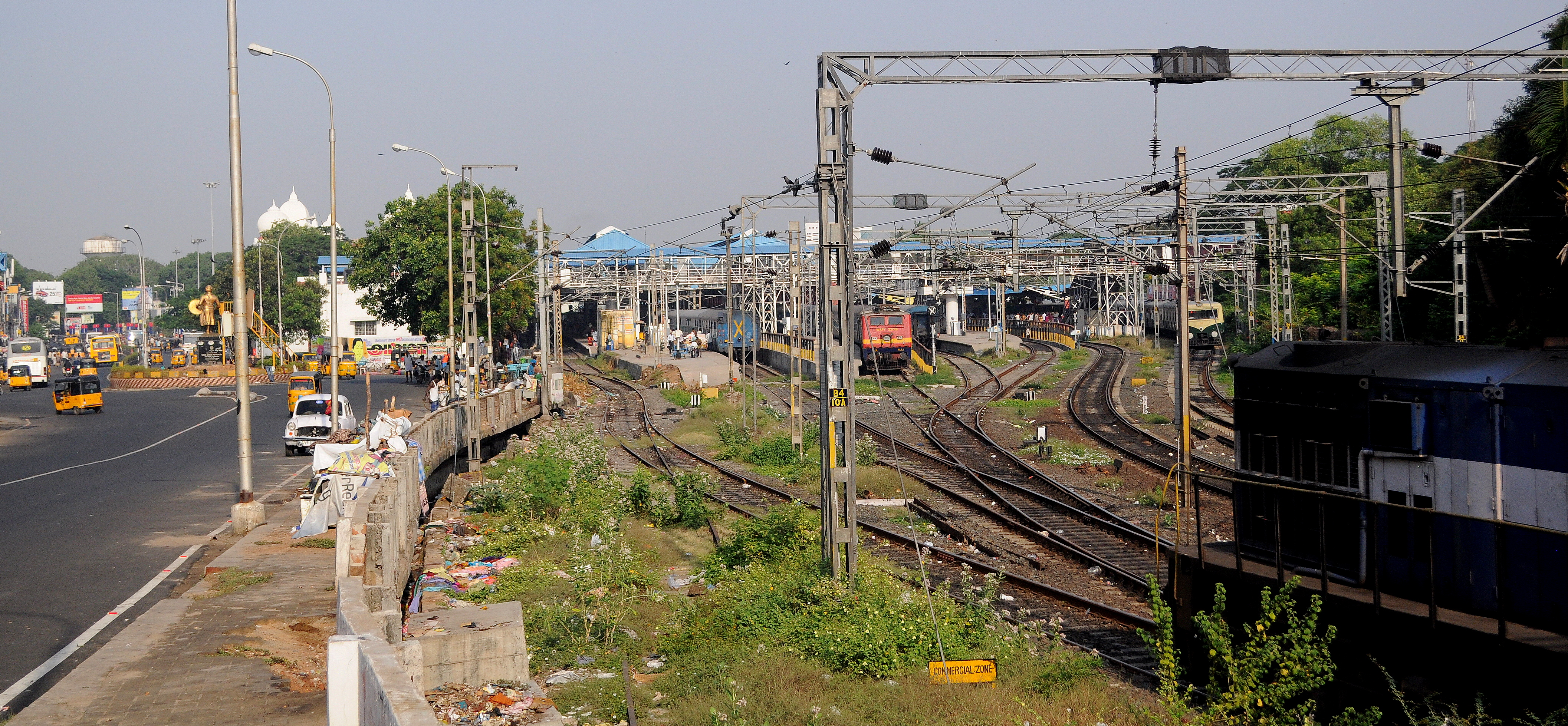 This view from the east shows (from left to right) the road running down the southern (main/historic) entrance of Chennai Egmore Railway Station, the domes atop the original building, and the platforms and eastern trackwork.